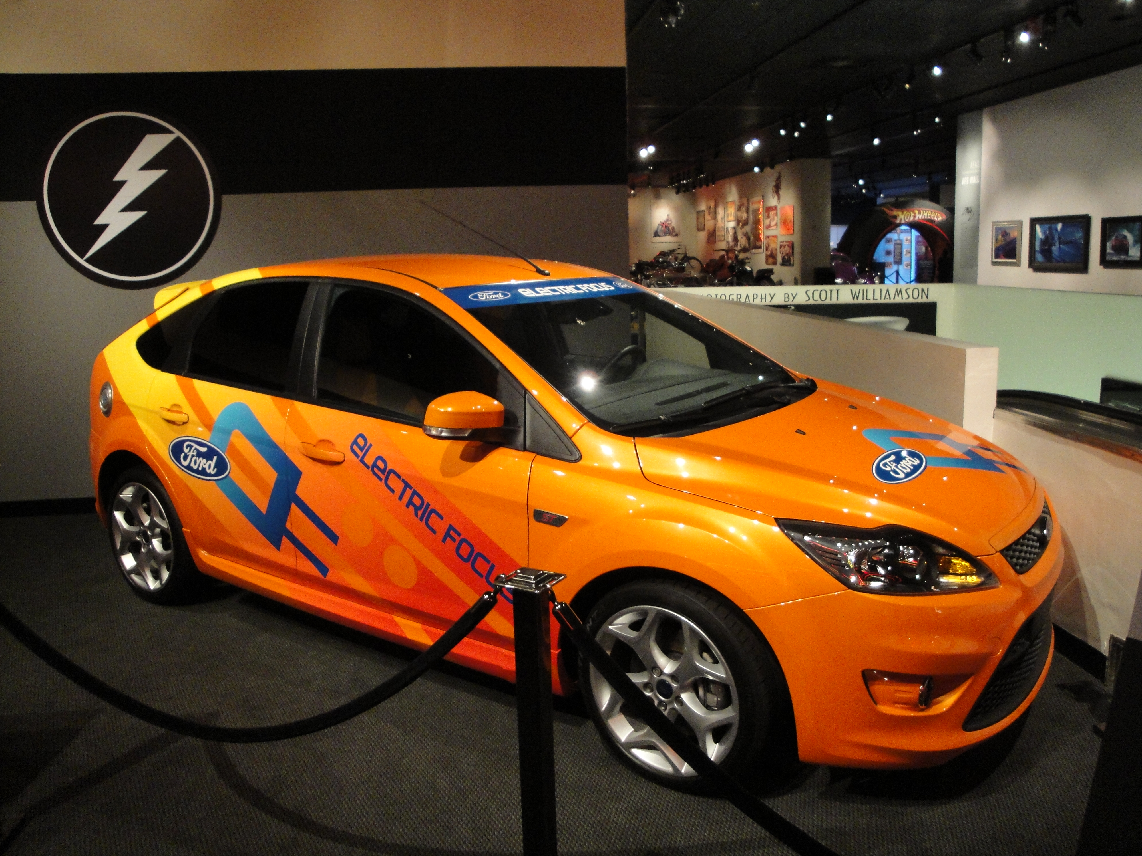 Ford Focus EV demonstration car at Carthay Circle, Los Angeles, CA, US.